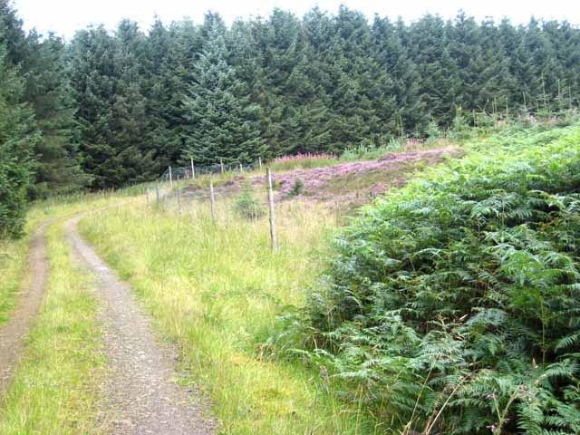 Forest colours, Harwood Forest Harwood Forest is a coniferous forest first established in the 1950s. A study in the subdued colours of the forest - light green bracken, dark green Sitka spruce, pink rosebay willowherb and purple heather.